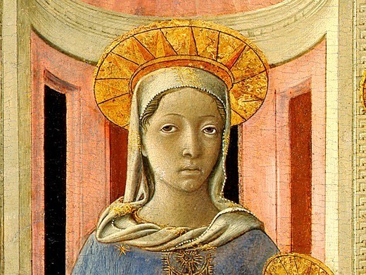 Virgin with Child st Peter and Paul. detail